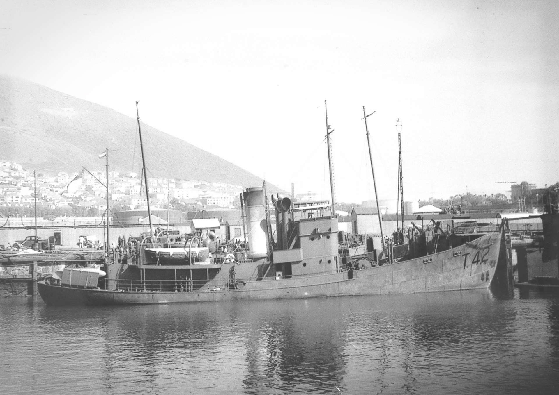 Picture of HMSAS Brakpan, Cape town South Africa, Circa 1941